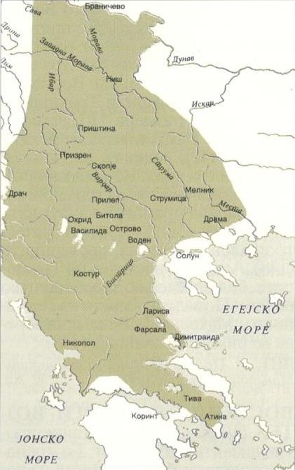 Map of the territorial scope of the Uprising of Peter Delyan in XI century